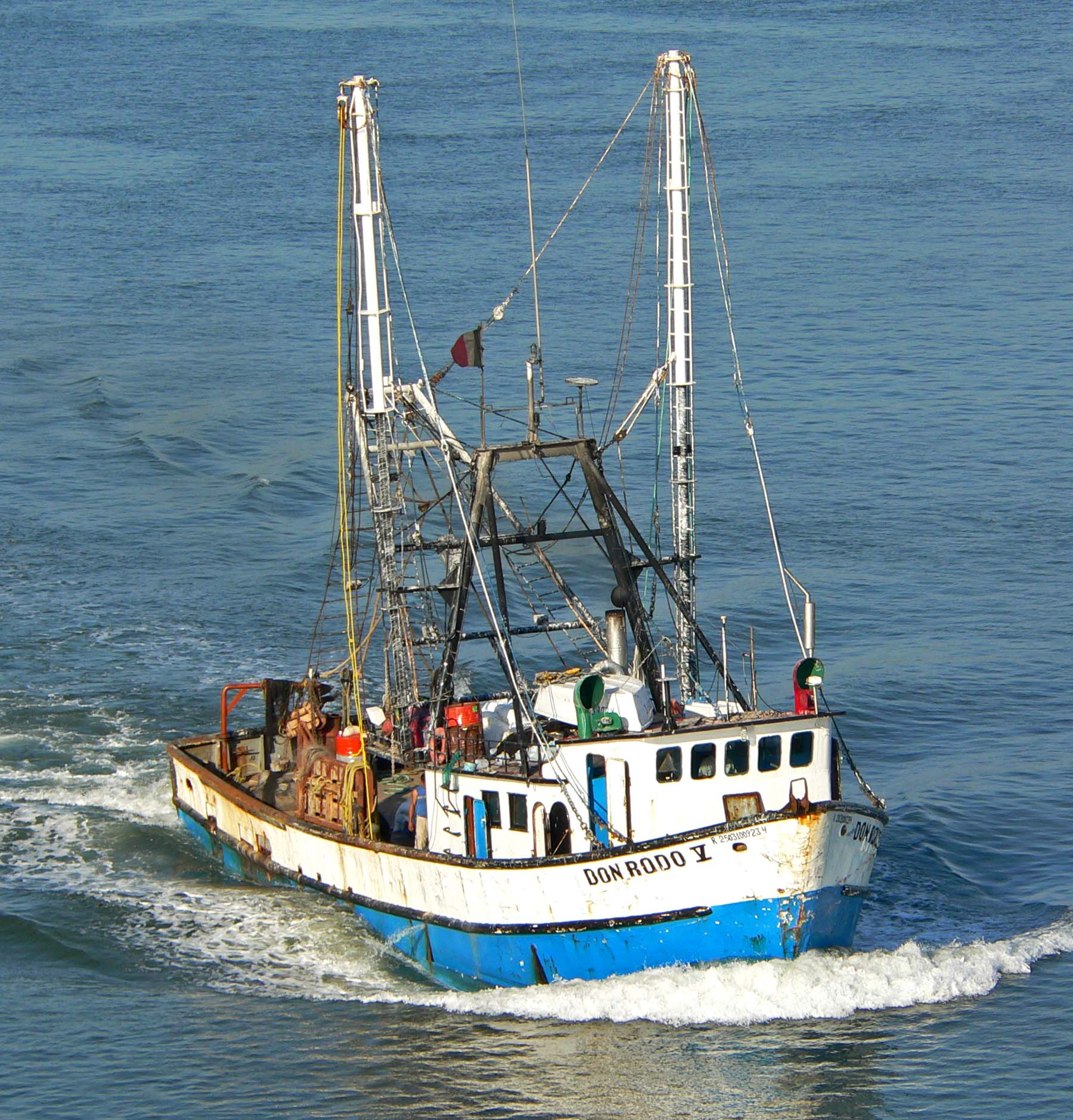 Photo of fishing boat Don Rodo V at Mazatlan